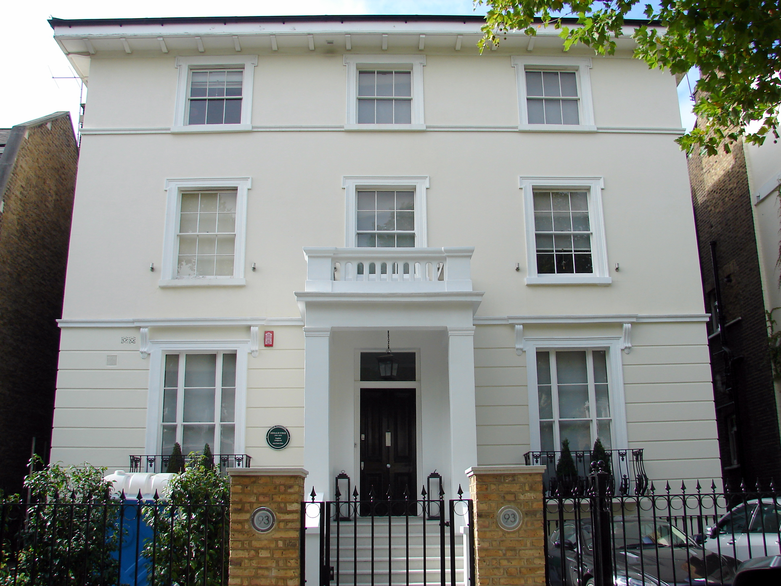 93 Hamilton Terrace, St John's Wood, London, United Kingdom with plaque to Gerald Finzi